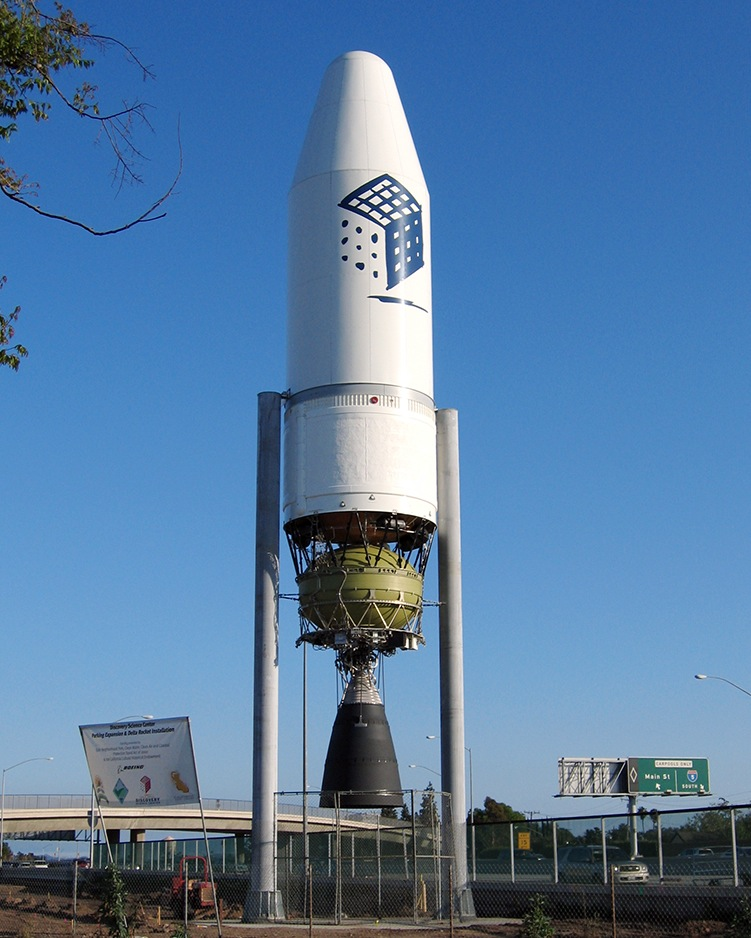 NASA's Delta III rocket 1:1 mock-up for the Discovery Science Center, Santa Ana, California.